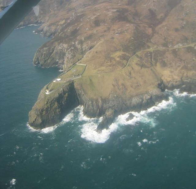 Ushenish (Uisinis) Lighthouse, South Uist. On the east coast of South Uist viewed from the Loganair (British Airways) Twin Otter en route from Barra to Benbecula